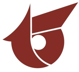 Hiraizumi Iwate chapter